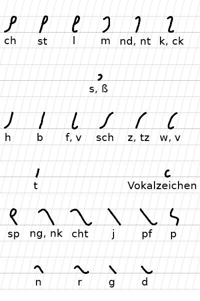 Consonants and consonant clusters of the "Stiefografie" (rationelle Stenografie) shorthand system for German.